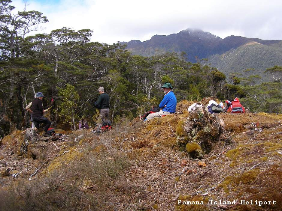 The Helicopter Landing Area on Top of the Pomona Island Bird Sanctuary Lake Manapouri New Zealand